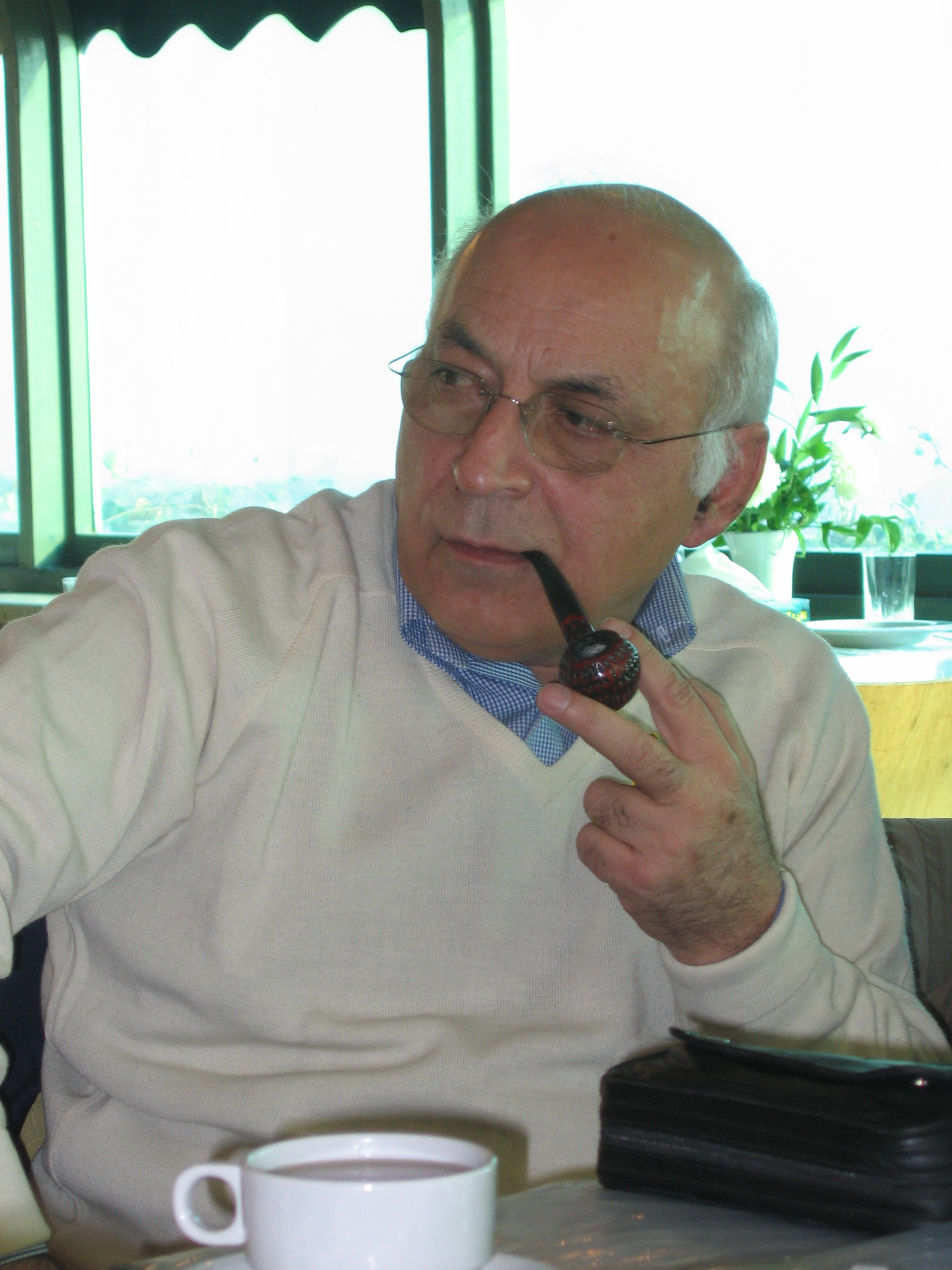 Siavash Shahshahni, Iranian academic and scholar.